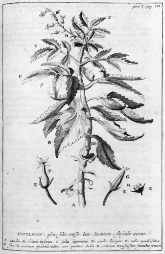 Cotyledon laciniata - Tafel 288 aus Boerhaaves Index Alter Plantarum Band 1